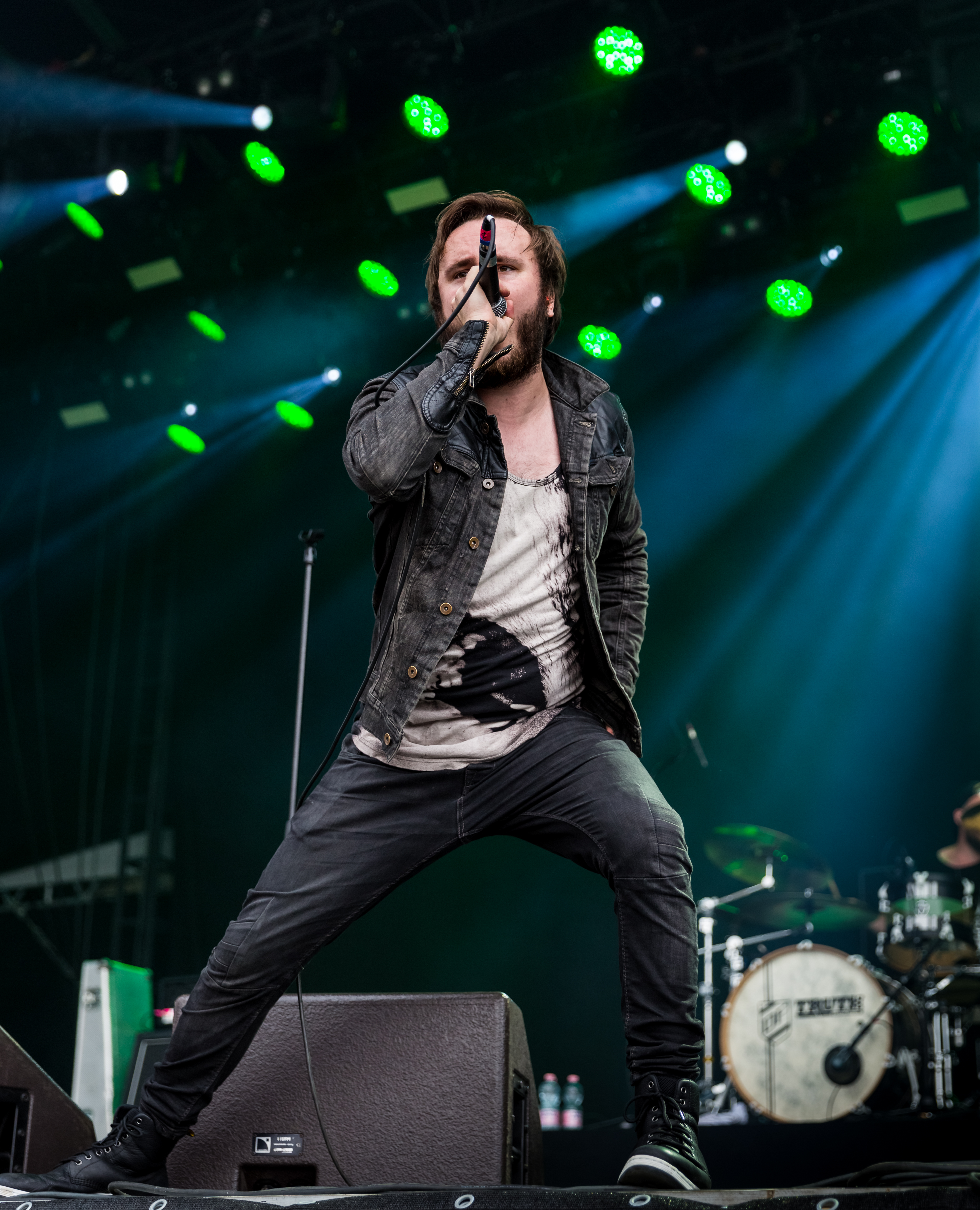 As Lions - Rock am Rimg 2017